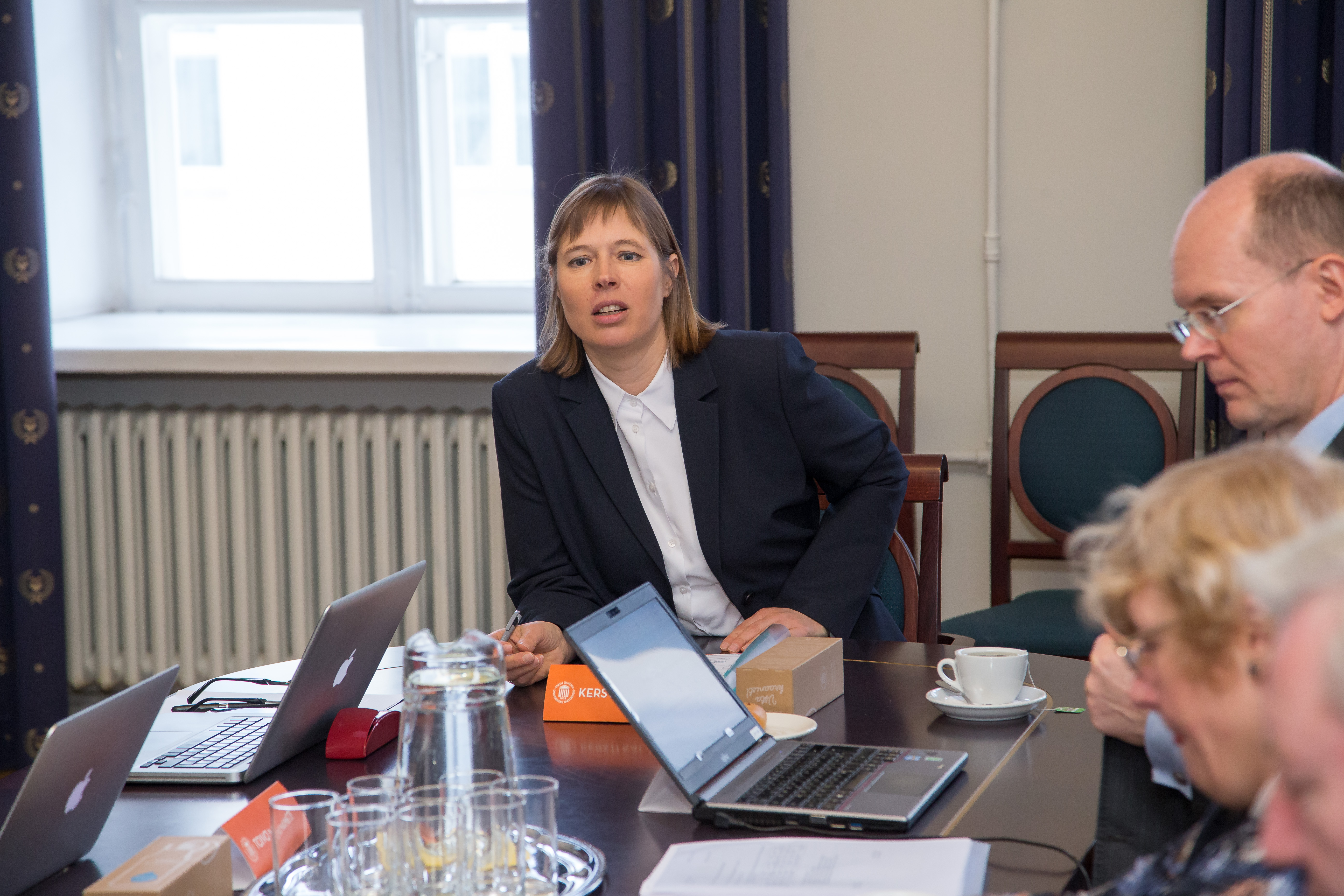 Council of the University of Tartu meeting. Chairman of the Council, Kersti Kaljulaid.